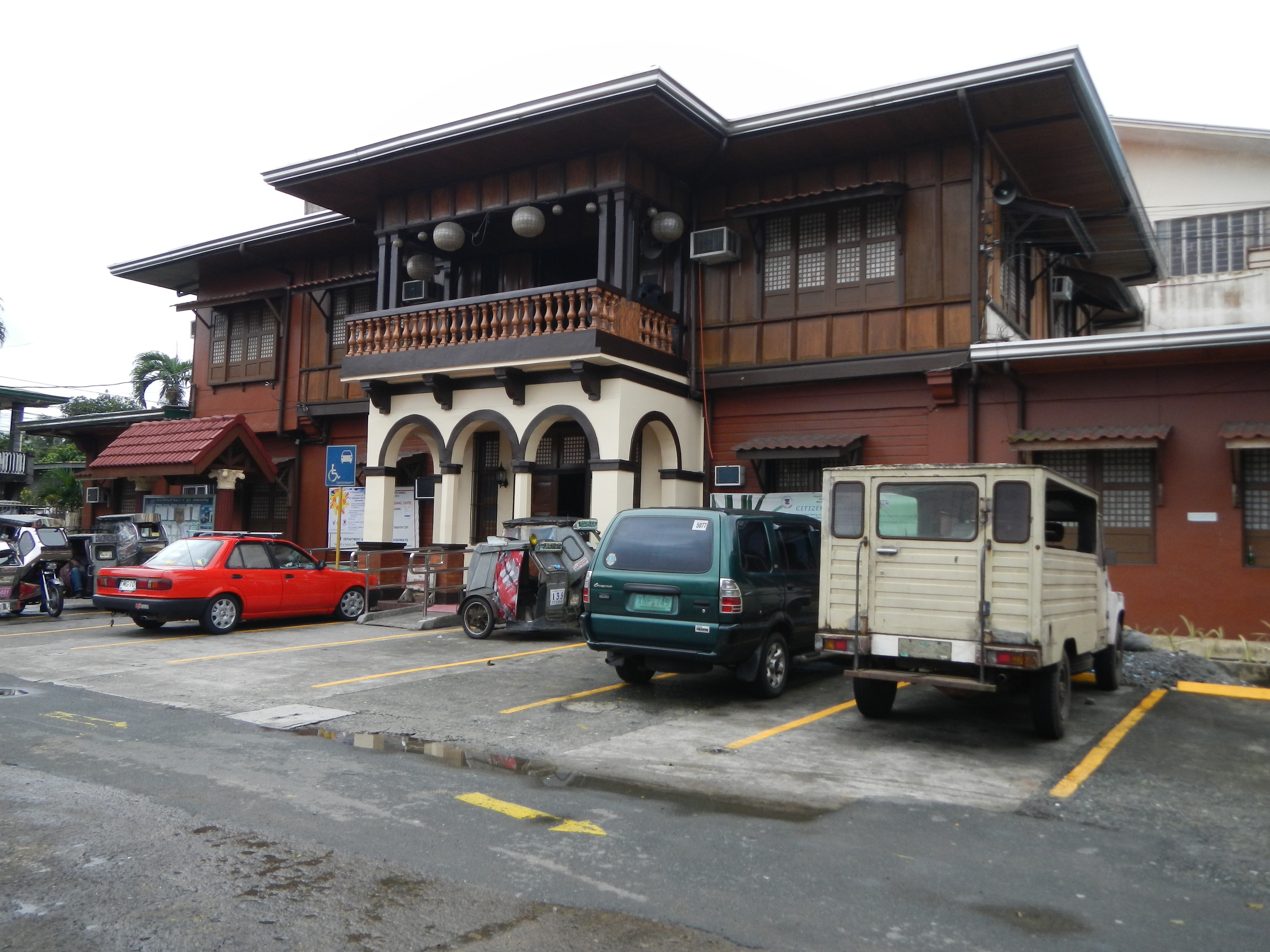 UploadWizard photos --- (general description) of landmarks, heritage, culture, comprehensive, photography) of – Town Hall of Indang, Cavite [1] [2] Coordinates: 14°12'10"N 120°50'25"E [3] Geographical location: Cavite, Region 4, Philippines, Asia Geographical coordinates: 14° 11' 43" North, 120° 52' 37" East [4] - Barangay Poblacion Tres Mall, Covered Court, Plaza, among others in Centro, downtown, junction, crossing, Town Proper in the heart is the heritage Town hall and Plaza -- and the - Indang Plaza in front of Town Hall - are - the Bust, Monument of Severino de las Alas, member of Aguinaldo's revolutionary cabinet; List of Cabinets of the Philippines[5] May 7 - November 13, 1899 - Cavite State University main campus, approximately 70 hectares in land area was named as Don Severino delas Alas Campus, is in Indang, Cavite.[6], Indang Heroes and Martyrs, WWII Veterans Memorial, Marker, Indang, Cavite [7] and the Monuments, Markers of - Jose Mojica Y Diokno, Raymundo C. Jeciel Y Tamio, (Governors 1922–1925) who was with Aguinaldo during his retreat to Northern Luzon and former governor of Cavite, General Ambrosio R. Mojica, politico-military governor of the First Philippine Republic in Samar and Leyte, Hugo Ilagan (May 7 - November 13, 1899) First Philippine Republic[8] and Jose Elias Coronel Y Rosal, both delegates to the Revolutionary Congress in Tarlac, Tarlac.